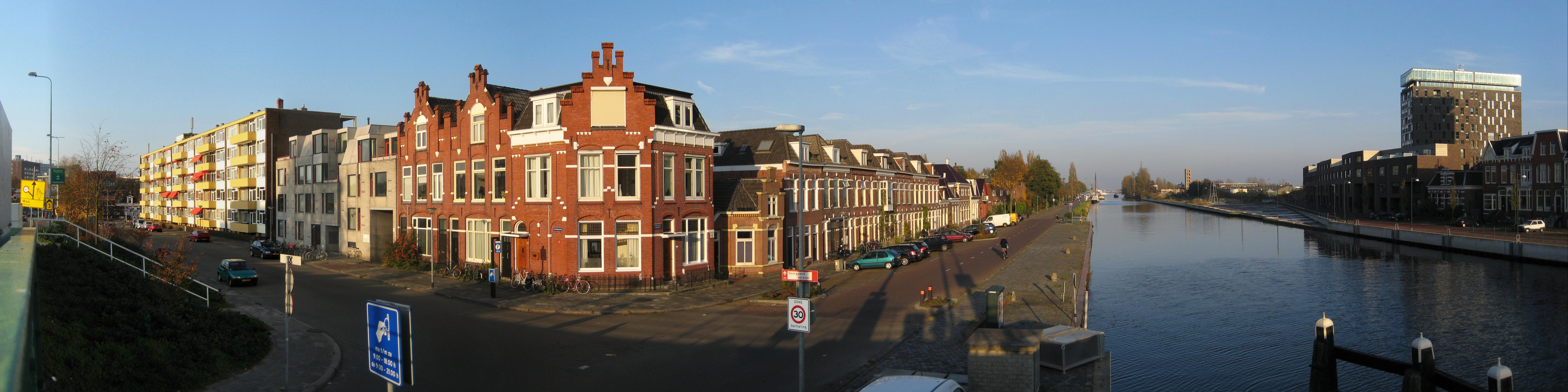 The Damstersingel and the Eemskanaal in the Dutch city of Groningen.